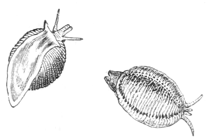 Illustration from Natural History: Mollusca (1854), p. 171 - "Cowry" (Cypræa Europæa). Modern accepted name (2012) is Trivia monacha